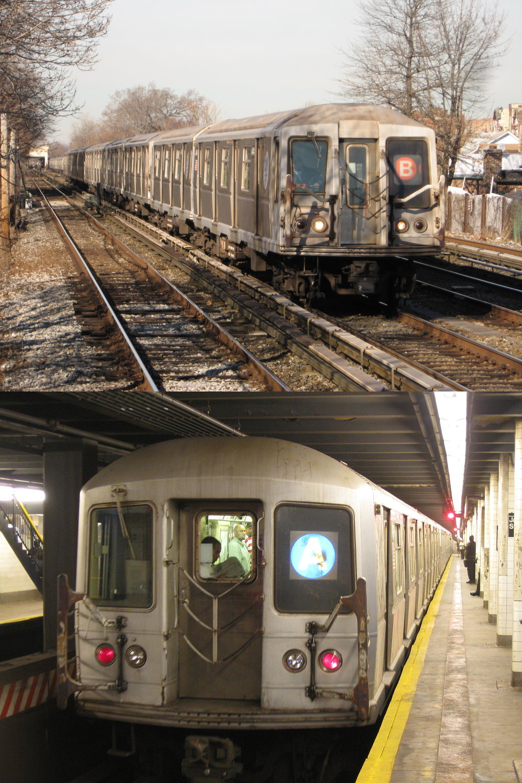 Top: R40 #4444 operates express through Avenue B on the B. This car has since been retired and sunk in the Atlantic Ocean. Bottom: R40M #4549 at Jay Street-Borough Hall on the A.